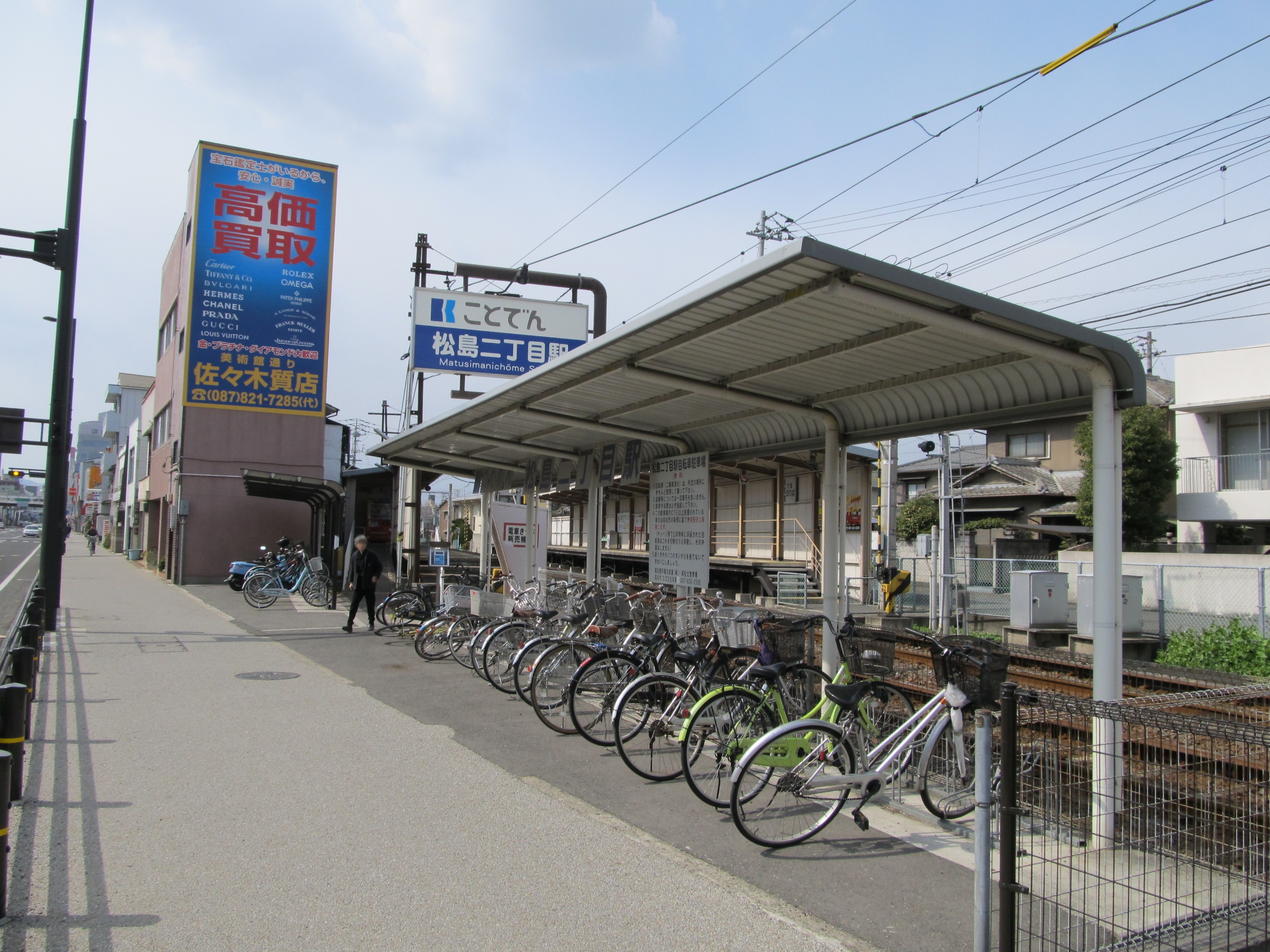 Takamatsu-Kotohira Electric Railroad Shido Line Matsushima-nichoume Station Bicycle parking